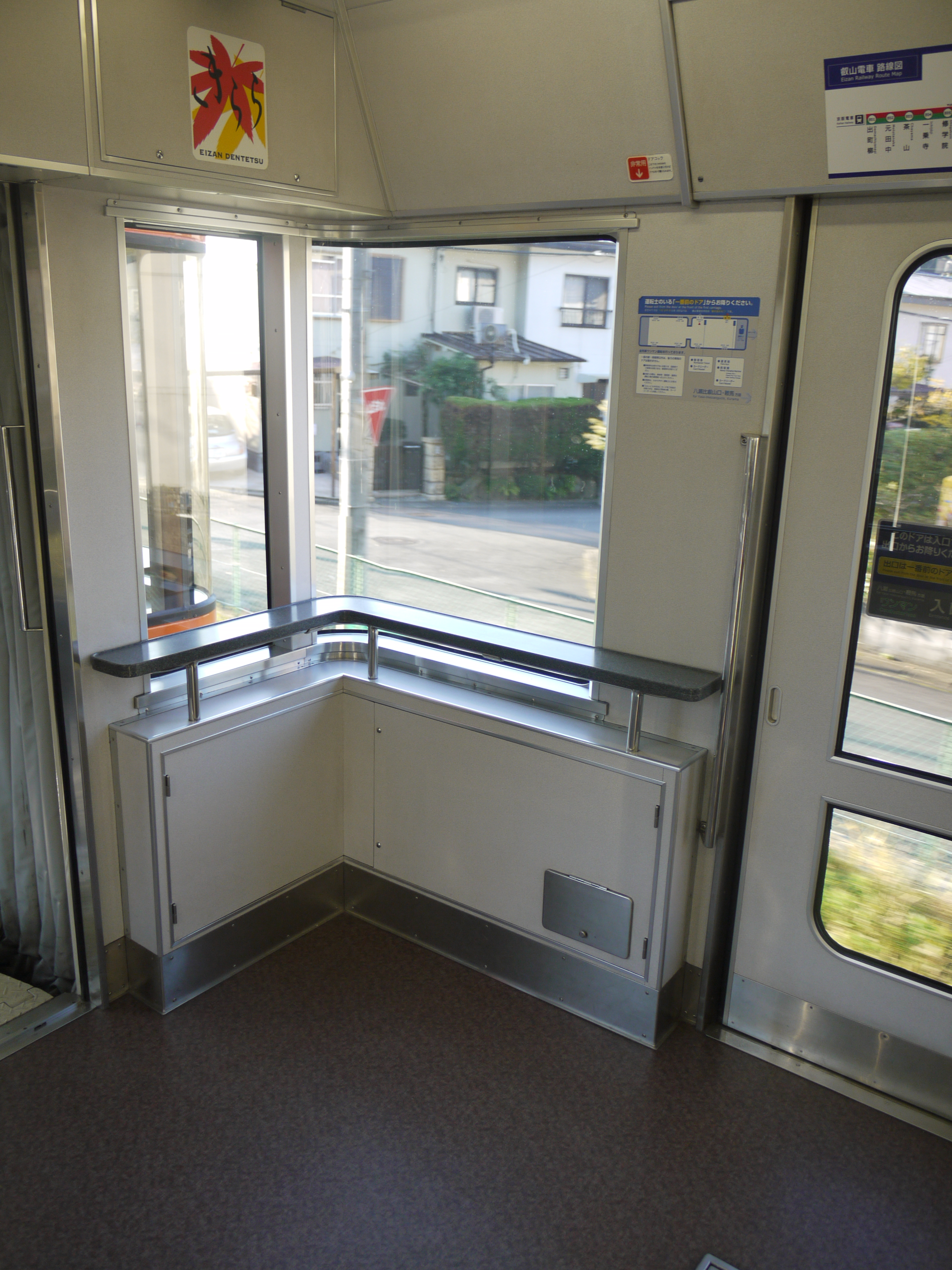 "Chat space" on Eizan Electric Railway Deo 903